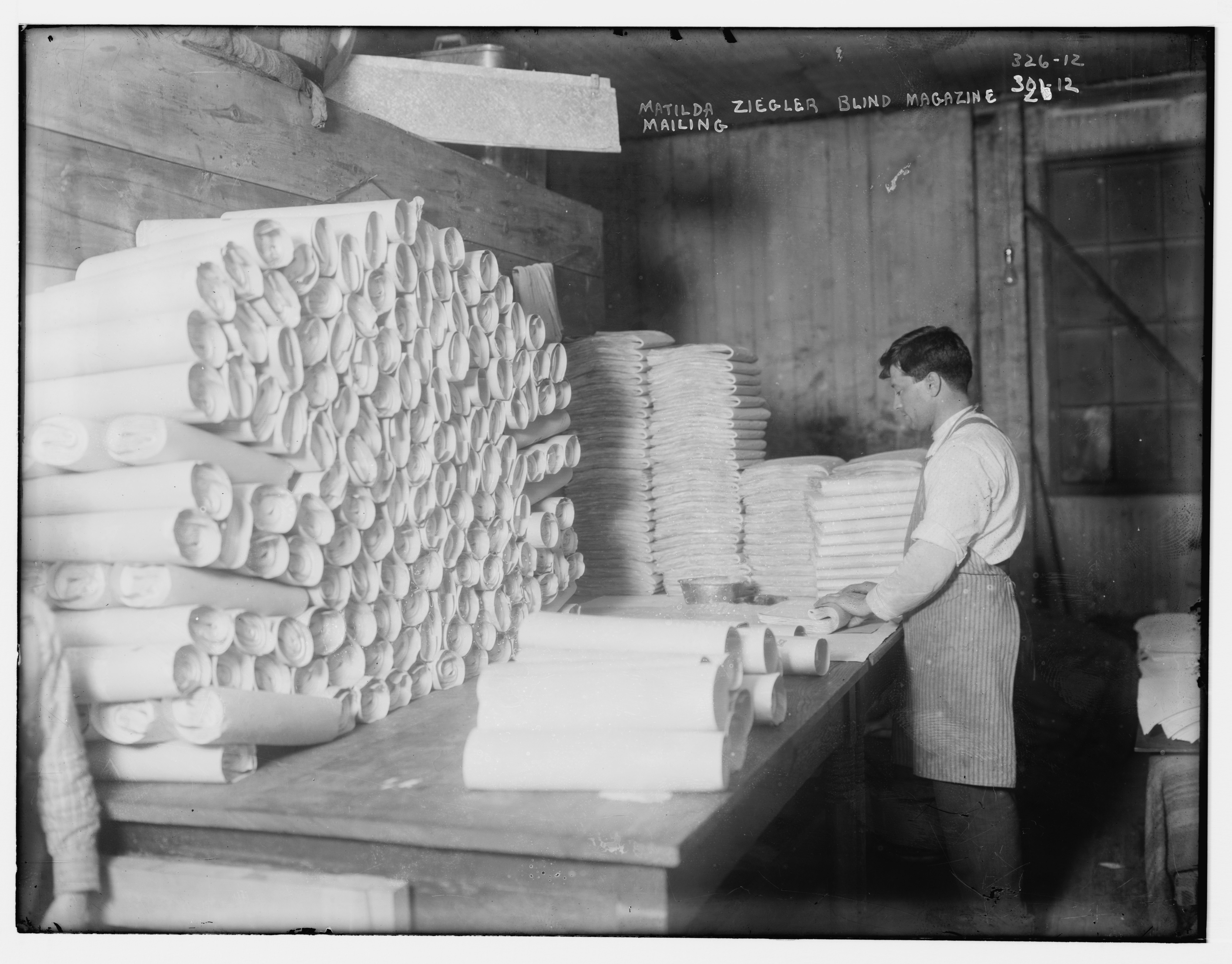 Title: Matilda Ziegler Blind Magazine, Mailing [Staatsburg] Abstract/medium: 1 negative : glass ; 8 x 10 in.